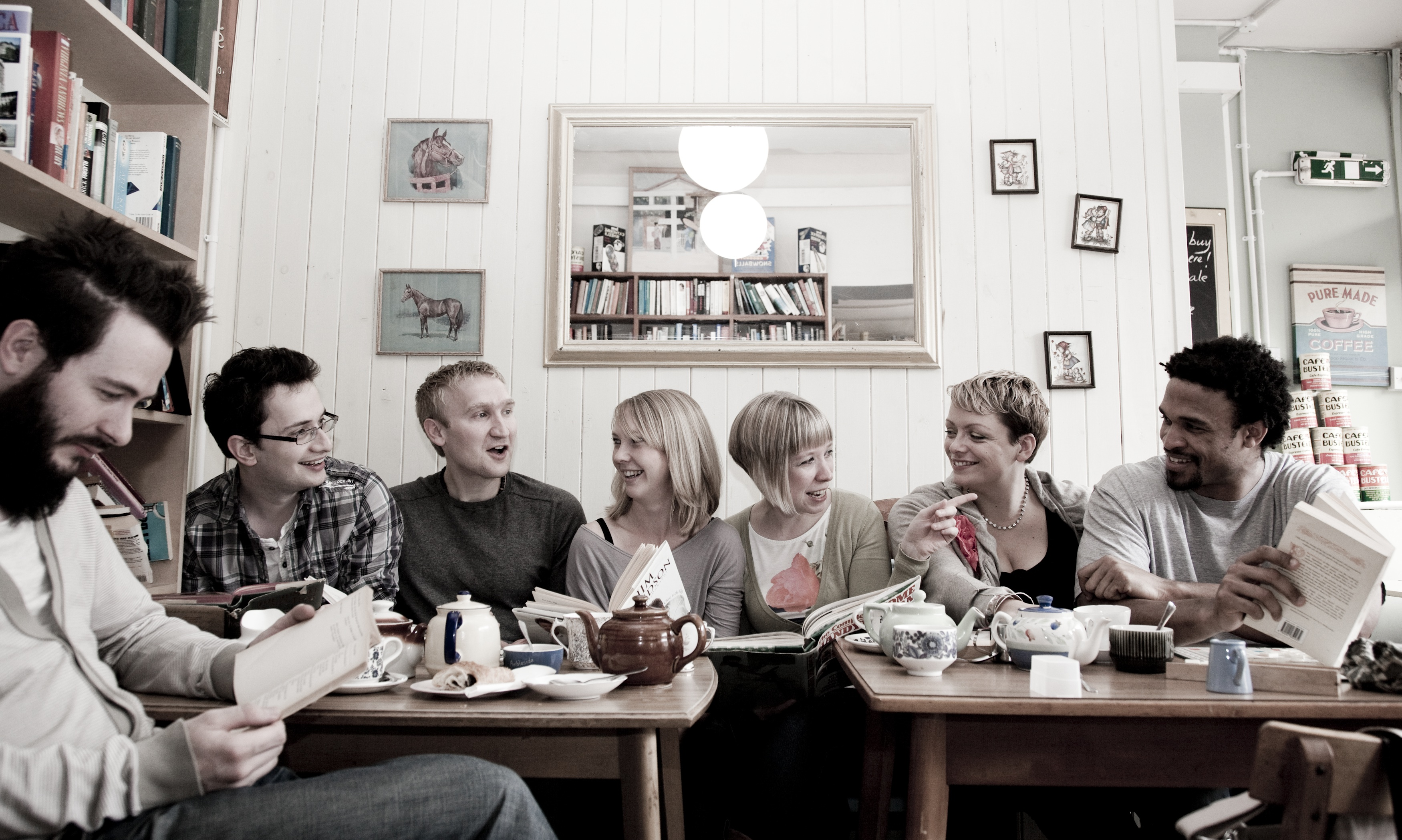 Band photo for 'Sharks Took The Rest'